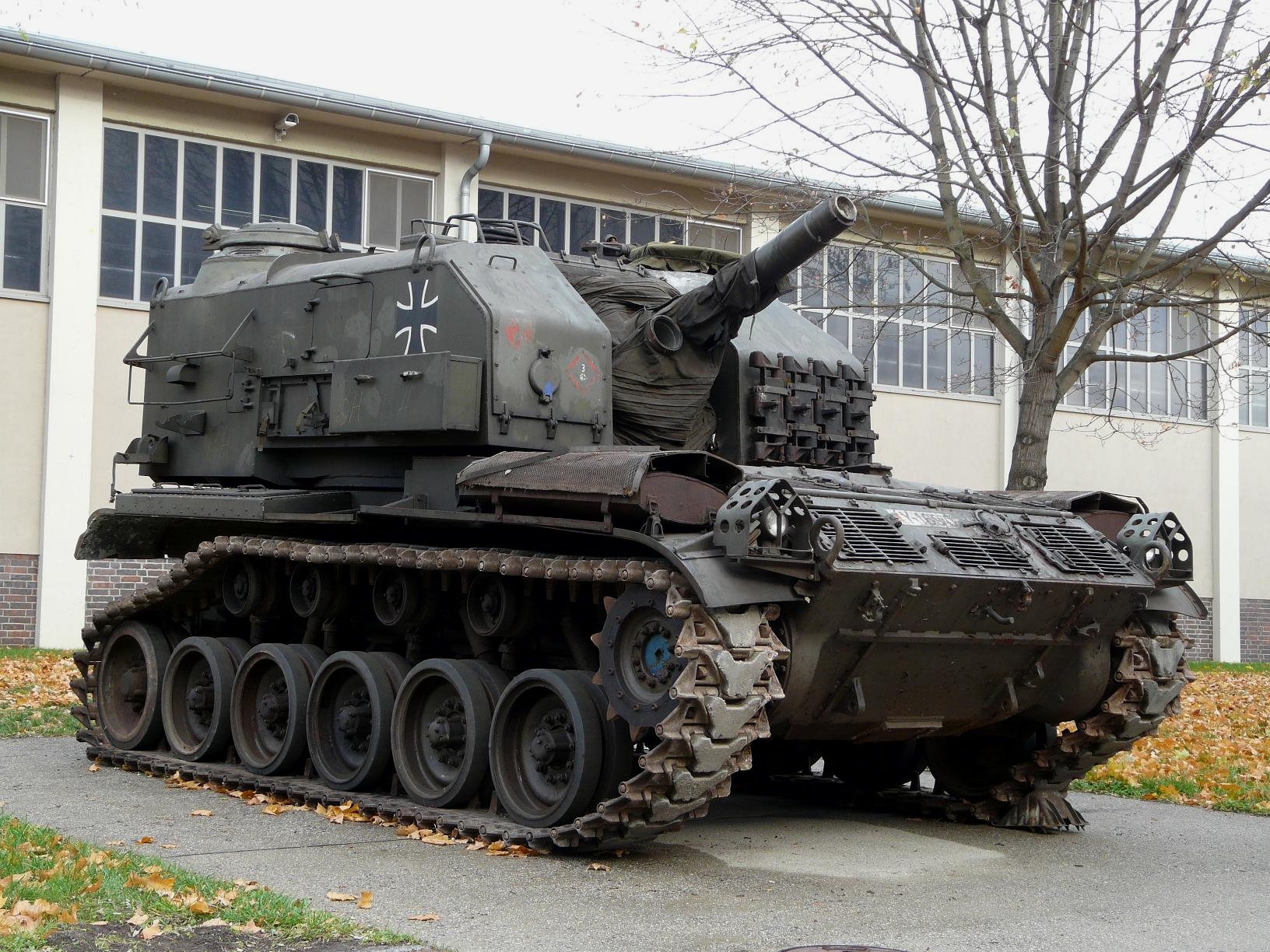 M52 Light Armoured Self-propelled Howitzer in the Bundeswehr Military History Museum in Dresden.